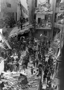 This shows the building destroyed by the car bombing in Ben Yehuda street at Jerusalem on Feb 22, 1948 during the Palestine War of 1948. This was organised by Hajj Amin al-Husseini's men. 52 Jewish civilians kild and 123 injured. See Ben Yehuda Street Bombing